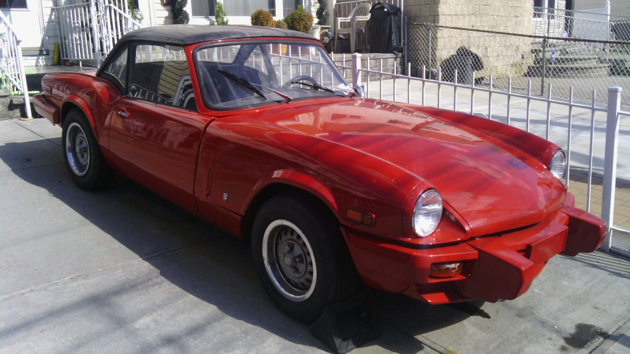 U.S. Federal version Front